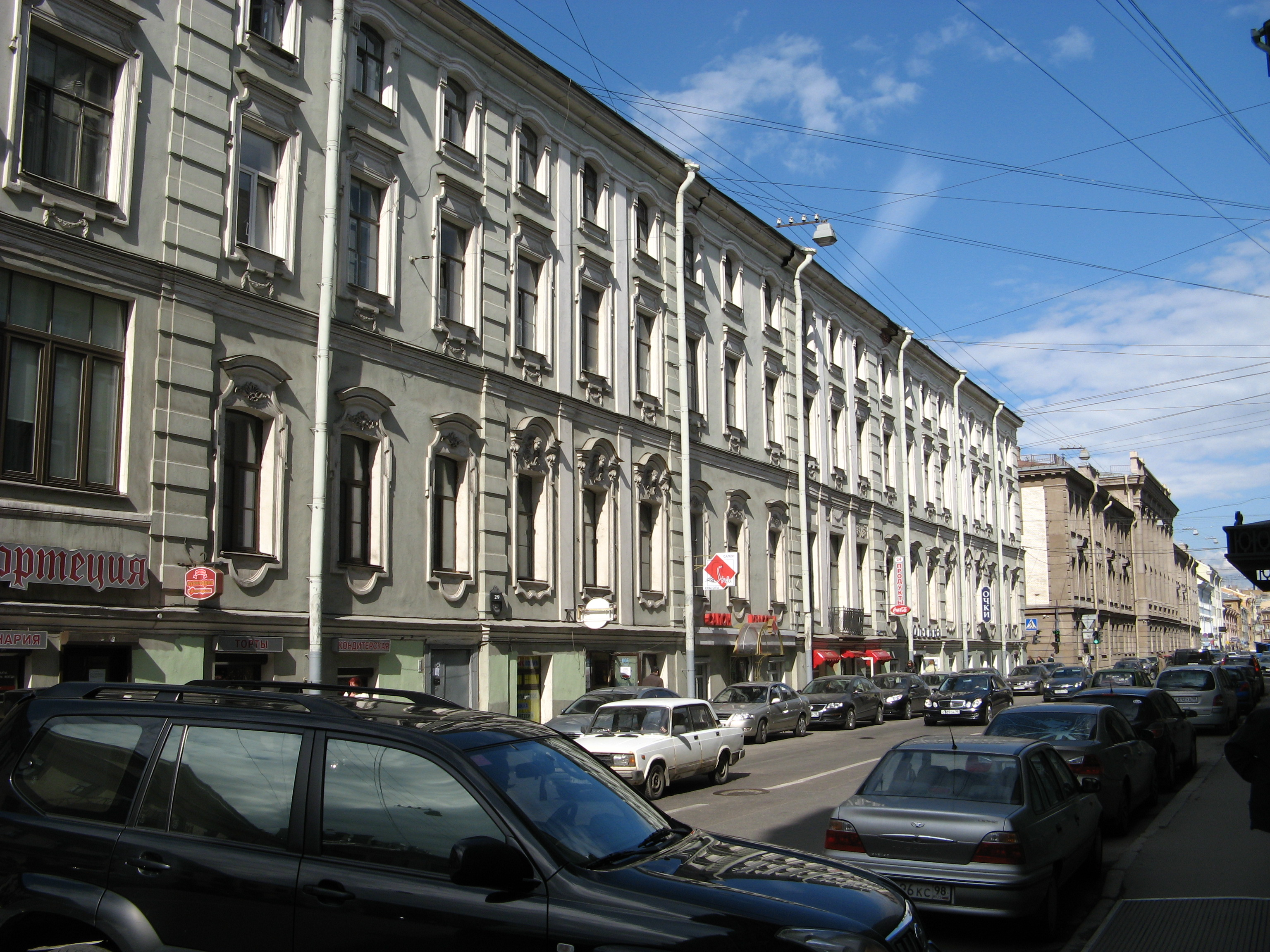 Kazanskaj street, 29 (Saint-Petersburg)